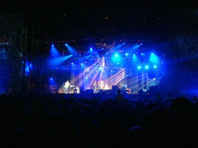 Sziget Festival 2004 by: Christian Sorge Homepage of Christian Sorge